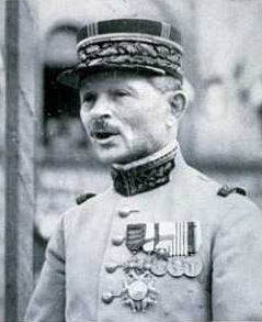 Maxime Weygand on the cover of TIME magazine, 10/30/33